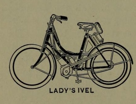 Description of a range of early Motorcycles. Ladies' Ivel The motor is placed beneath the lower front frame and drives by belt to a pulley. Carburettor igniter and fuel are at the back of the seat post. A skirt shield covers the motor and belt.